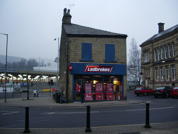 "Ladbrokes"